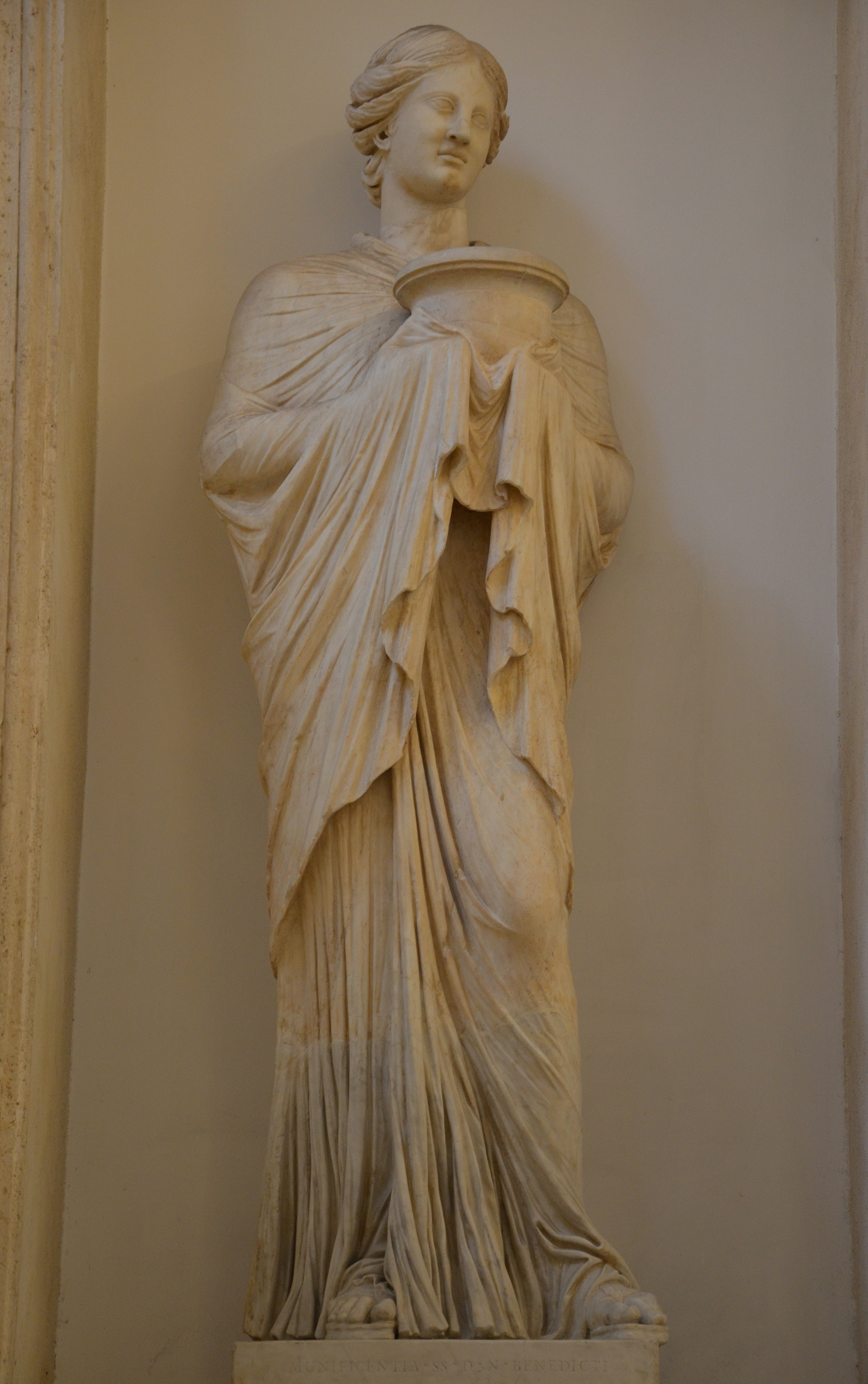 The ancient but not pertinent head does not blend in harmoniously with the entire figure, wrapped in a long robe (chiton) and with the upper part wrapped in a short cloak (himation). The head, with its nose product of restoration and the heavy reworking of the surfaces, can instead be dated to the late Hellenistic period, ascribable to Greek-Eastern workshops. In fact, its pose, proportions, appearance and hairstyle can be compared to sculptures generally dating to middle or late Hellenism . Identification of the figure as a priest is possible due to the comparison with the Egyptian style statue that represents Isiac priests holding a vase (canopic jars) hidden by their robes; the figure refers to the cult of Osiris-Canopus. The vase most likely held lake water from the Nile, considered the emanation of the god Osiris. It is likely that the statue is an eclectic Hadrianic period (117-138 AD) invention: a Greek-style reinterpretation of an Egyptian way of representation (the hypothesis that it could be a late Hellenistic work or a copy from a Hellenistic original is less convincing). The work comes from Villa Adriana, Tivoli.